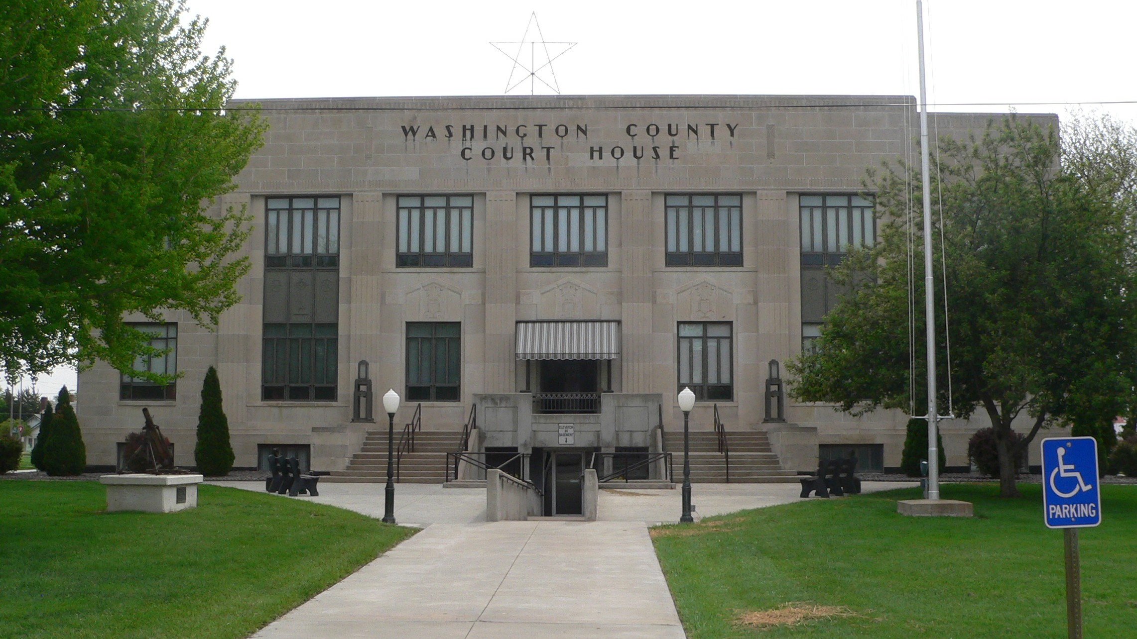 Washington County courthouse in Washington, Kansas; seen from the west.